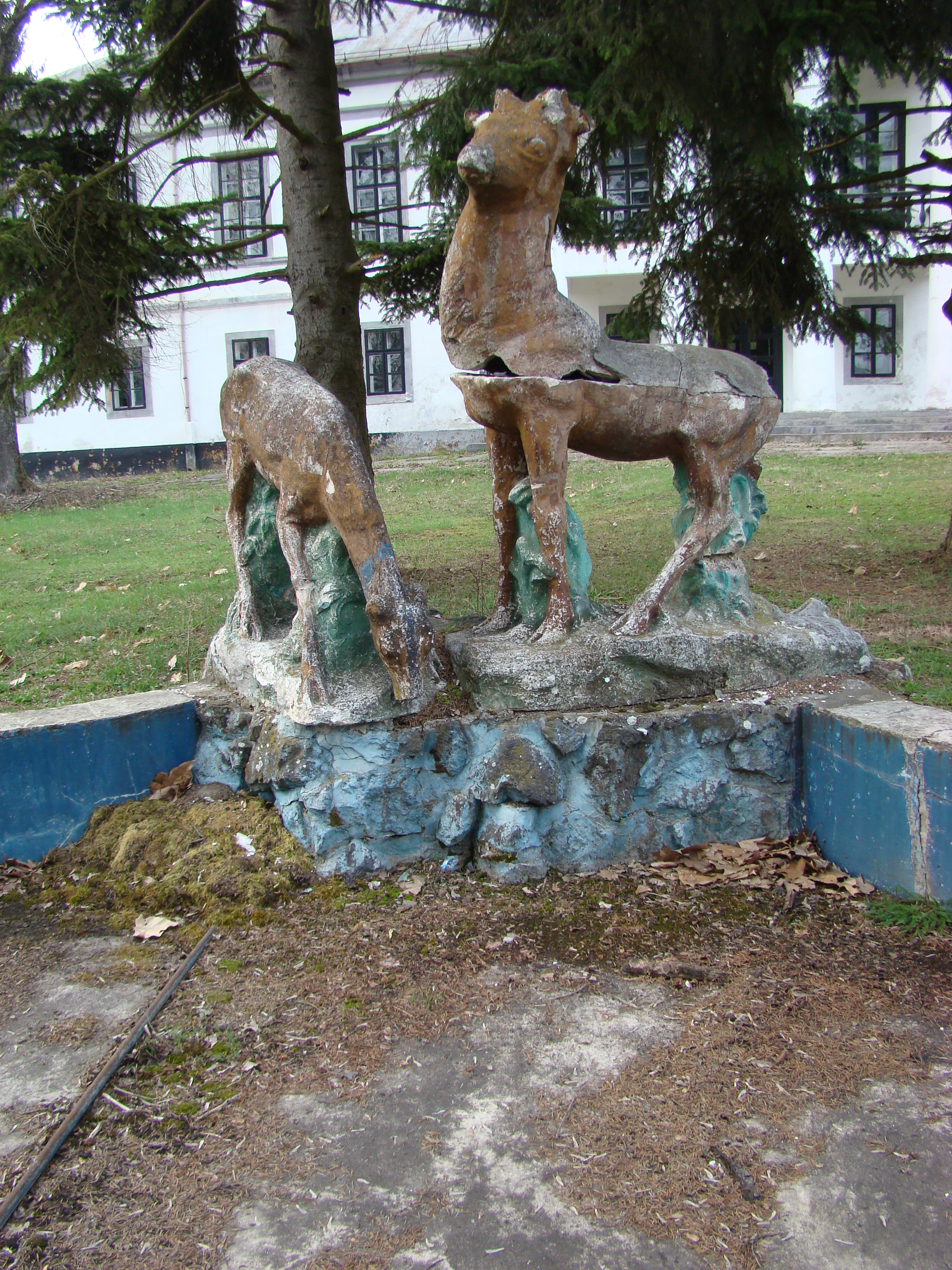 Salbek castle, Petriș, Arad county